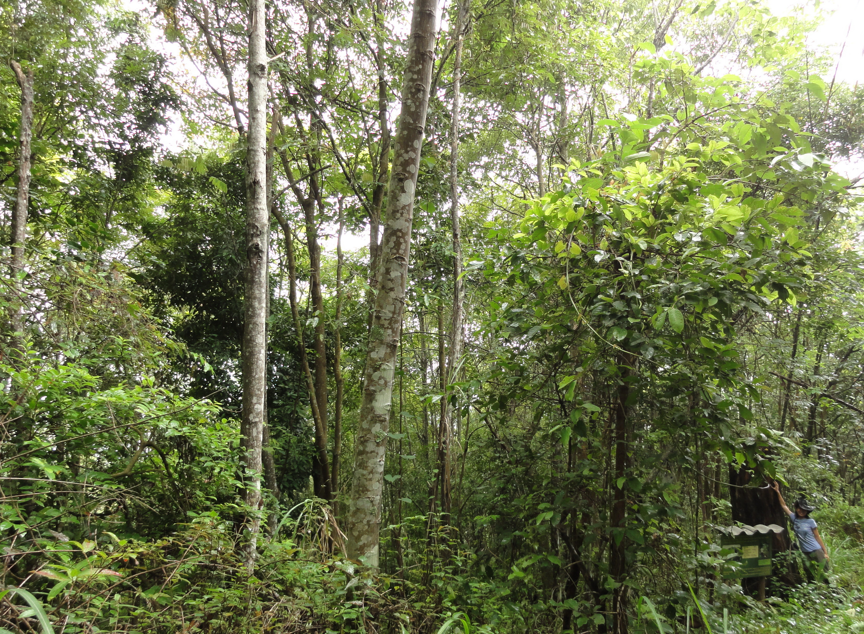 Forest restoration demo plot, 12 years after planting 29 framework tree species.